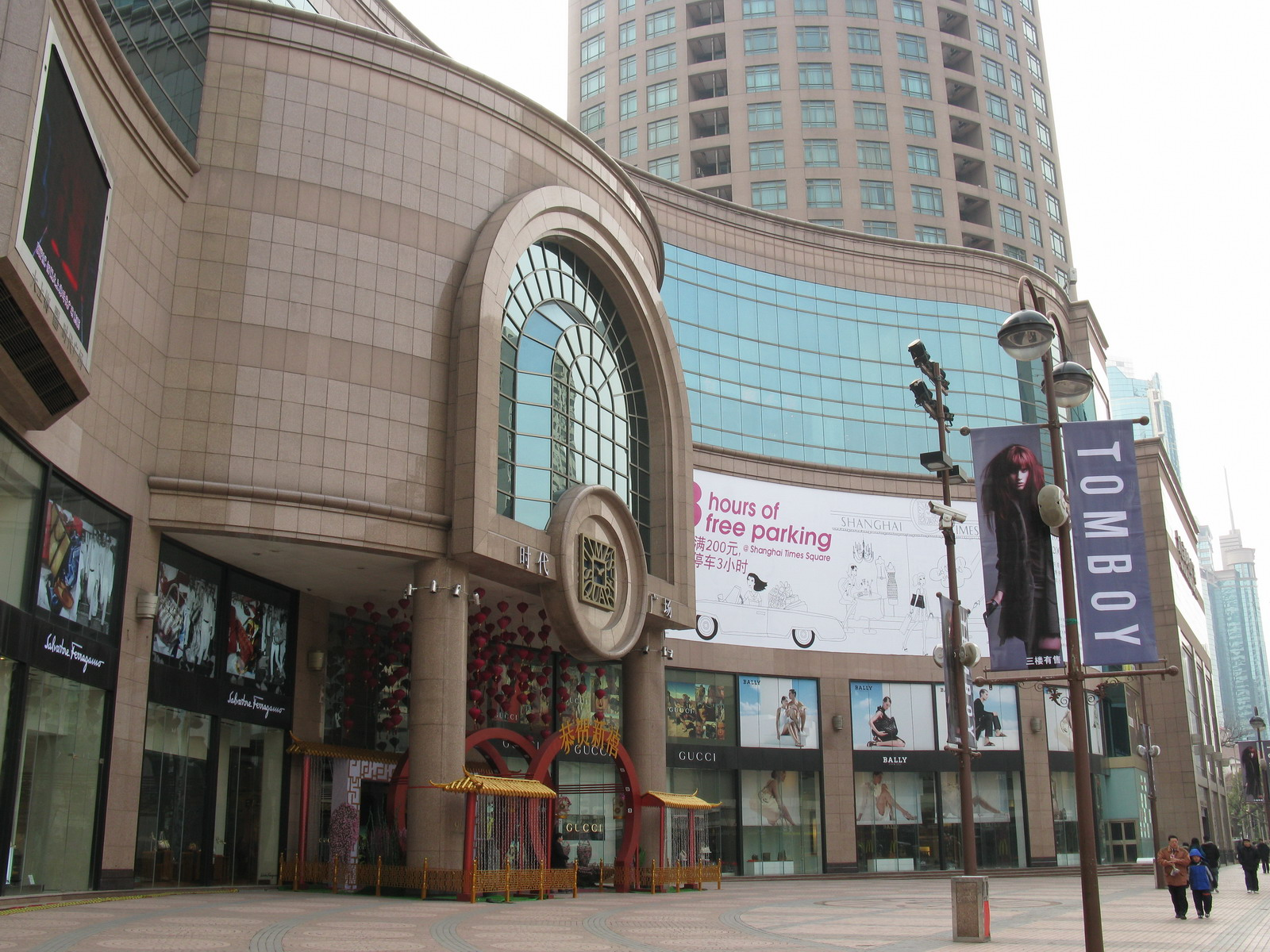 Shanghai Times Square